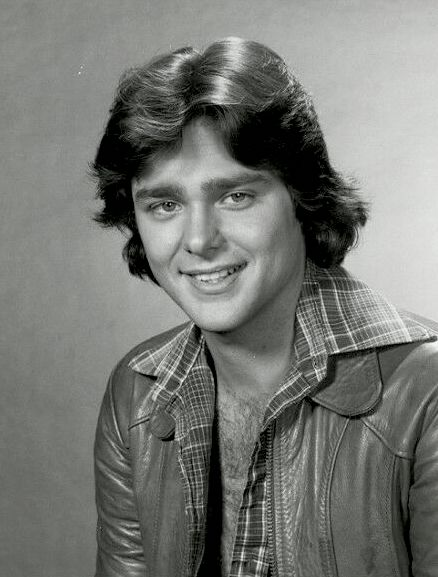 Publicity still of actor Greg Evigan photographed in 1979, promoting B.J. and the Bear